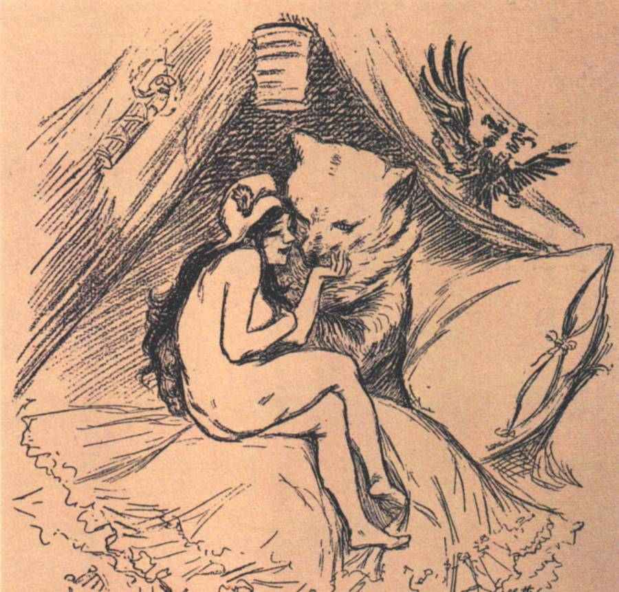 December 18, 1893 political cartoon from newspaper "Soleil" depicting the Franco-Russian Alliance. Adolphe Willette. Marianne of France and the Russian Bear embrace. "If I return your love, will I get your coat for winter?"